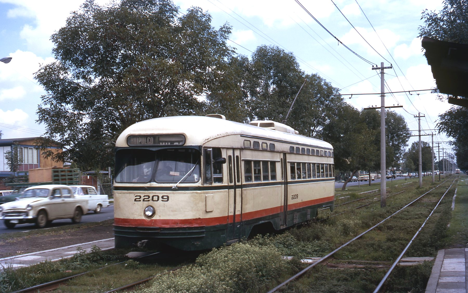 PCC-type tram/streetcar No. 2209 in centre reservation on a wide boulevard (Calzada de Tlalpan) on the lines to Xochimilco and Tlalpan, in Mexico City. Taken on Kodachrome film on 4 August 1971. From its rollsign display, car 2209 was evidently going only as far as Huipulco, the junction of the two lines, about halfway from Tasqueña to Xochimilco.